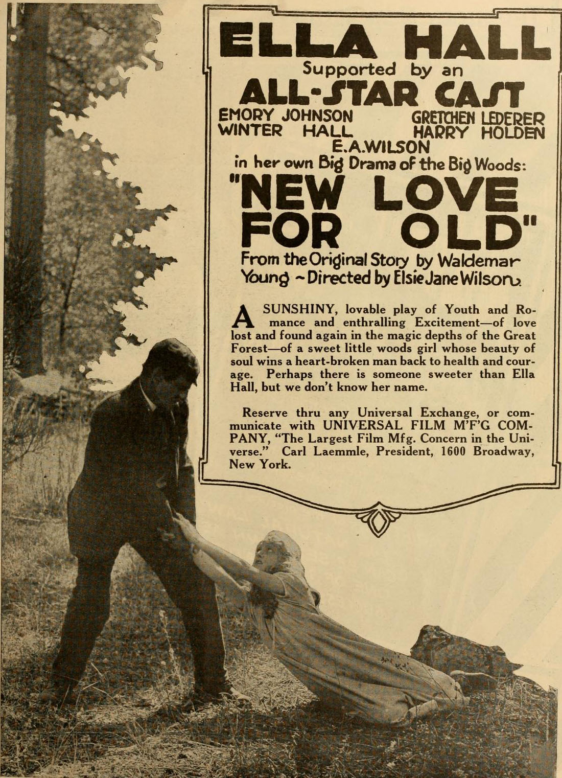 Advertisement in The Moving Picture World for the American drama film New Love for Old (1918).